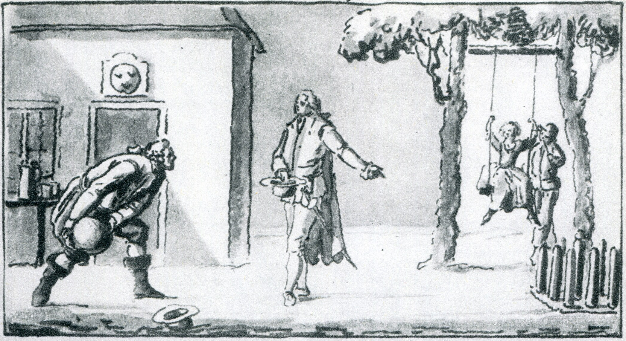 Wash drawing by Pehr Hilleström in a 1792 letter of Carl Michael Bellman in Swedish dress with (his song character) Mollberg playing Bowls.